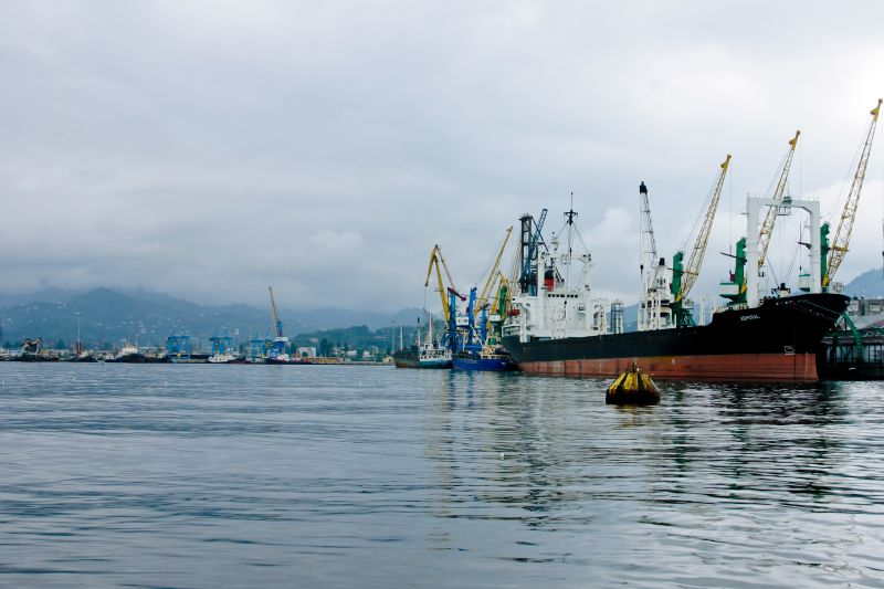 Black Sea: Batumi, Republic of Georgia.